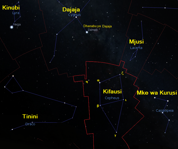 Constellation Cepheus as seen from Tanzania, Swahili labelled Kiswahili: Kundinyota Kifausi (Cepheus) jinsi inavyoonekana kutoka Tanzania, majina kwa Kiswahili